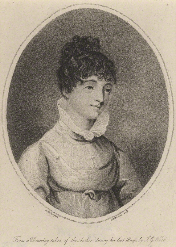 Portrait of Elizabeth Smith (1776–1806), English translator and scholar.